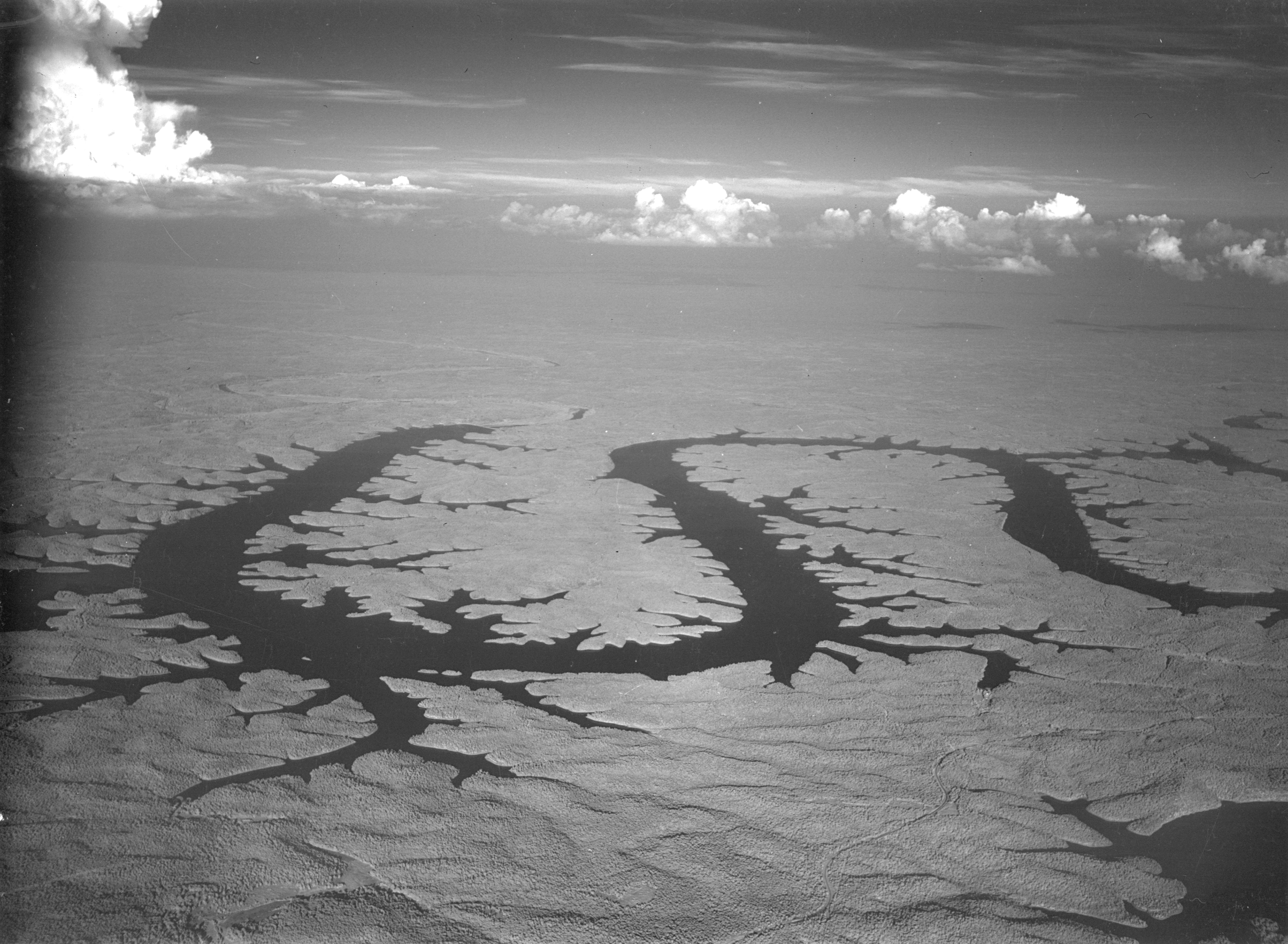 ollection Name: Commerce and Industrial Development Collection Photographer/Studio: Massie, Gerald Description: Aerial of the Lake of the Ozarks. Coverage: United States - Missouri - Lake of the Ozarks Date: October 1945 Rights: Copyright is in the public domain. Credit: Courtesy of Missouri State Archives Image Number: CID_057_358 Institution: Missouri State Archives